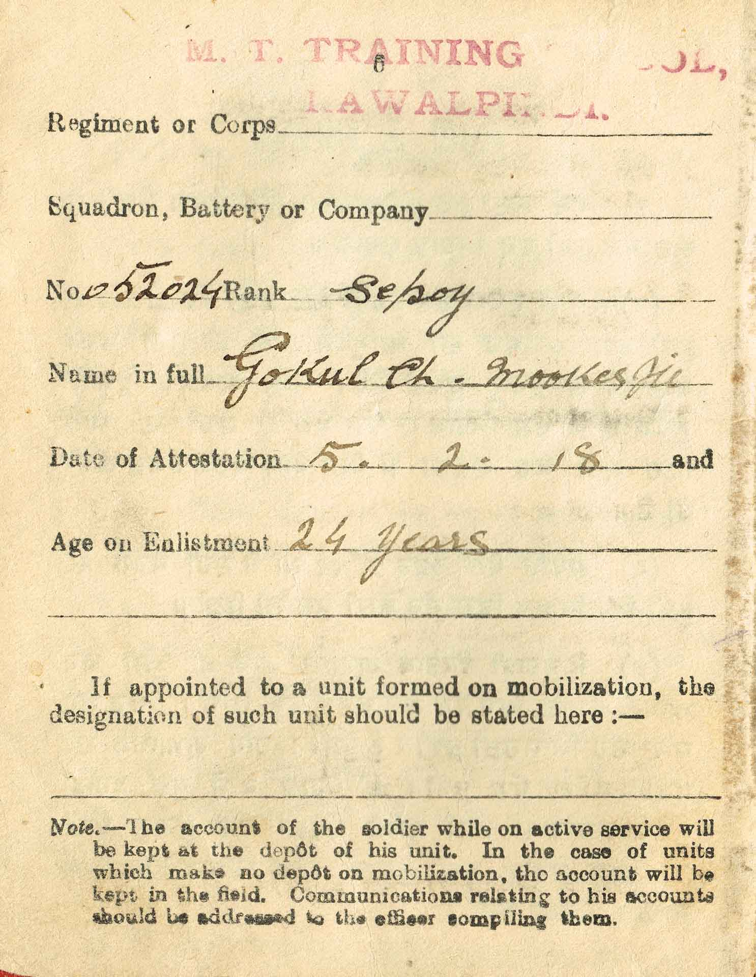 Mukerji's record on the Indian Soldier's pay book, issued on 13 April 1918